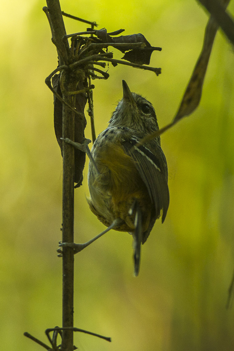 Ochre-rumped Antird - Intervales - Brazil_S4E0022